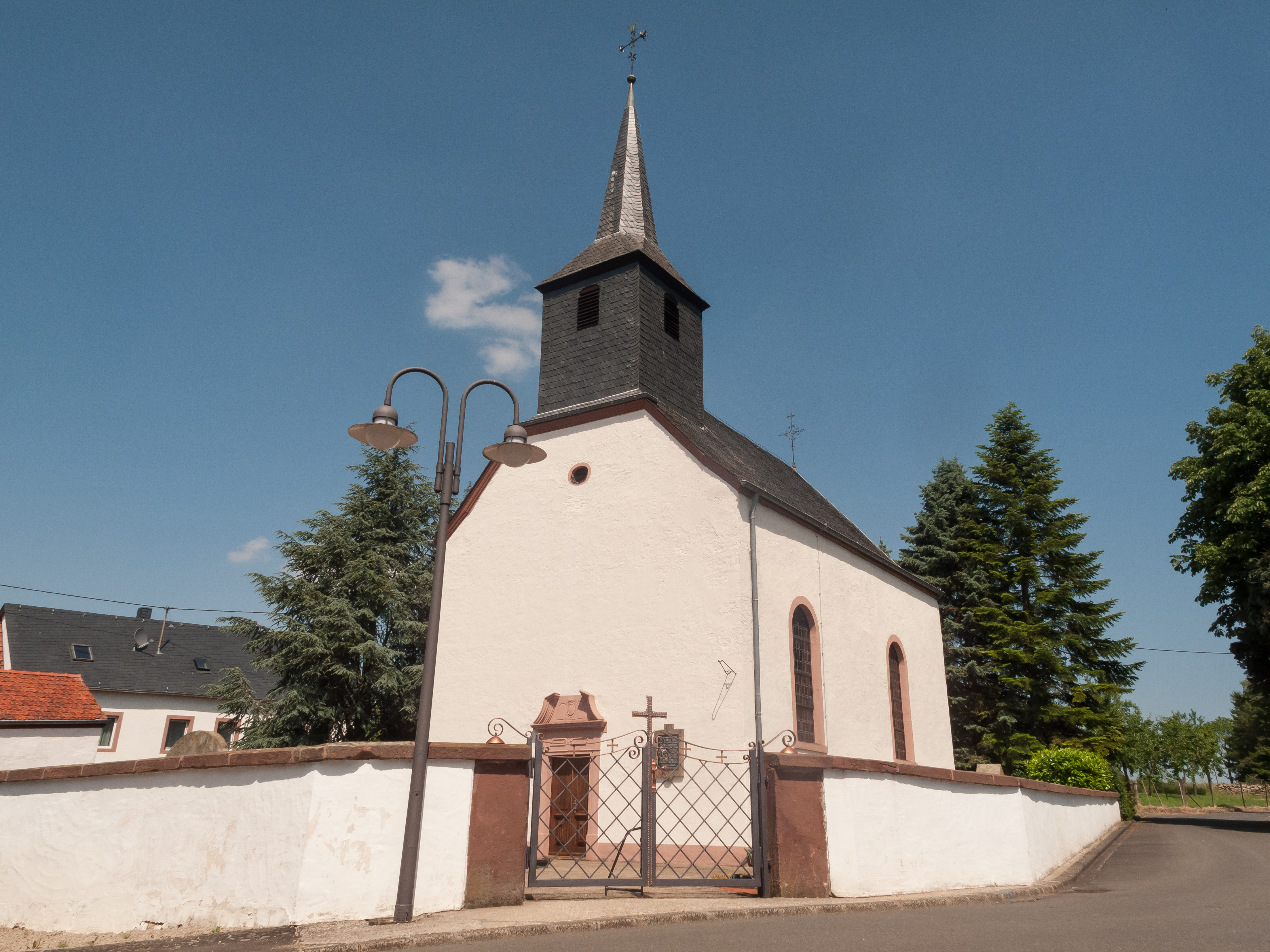 Scharfbillig, church: katholische Filialkirche Sankt Lukas